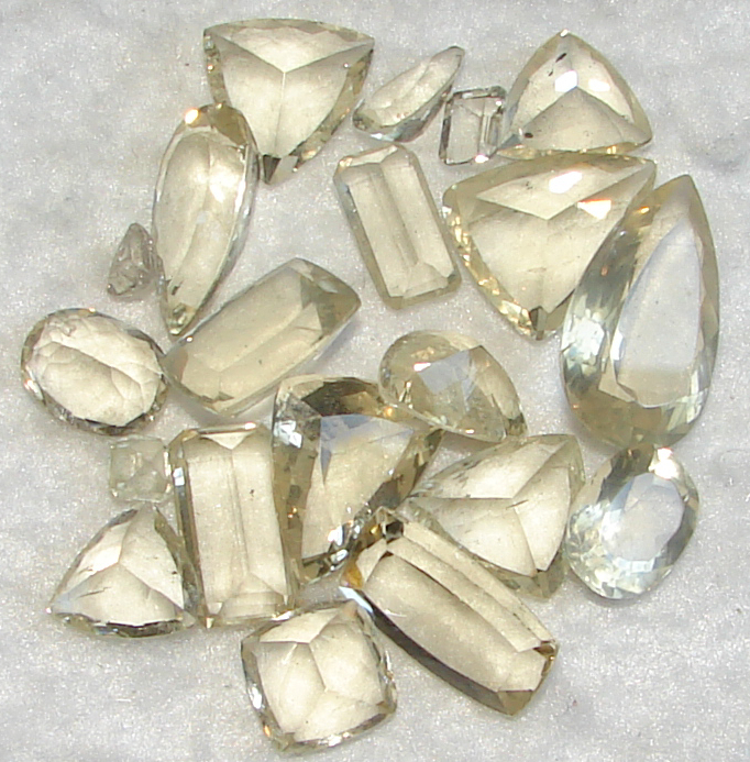 Some Cut Oligoclase from Brazil. Cutting by Afonso Marques